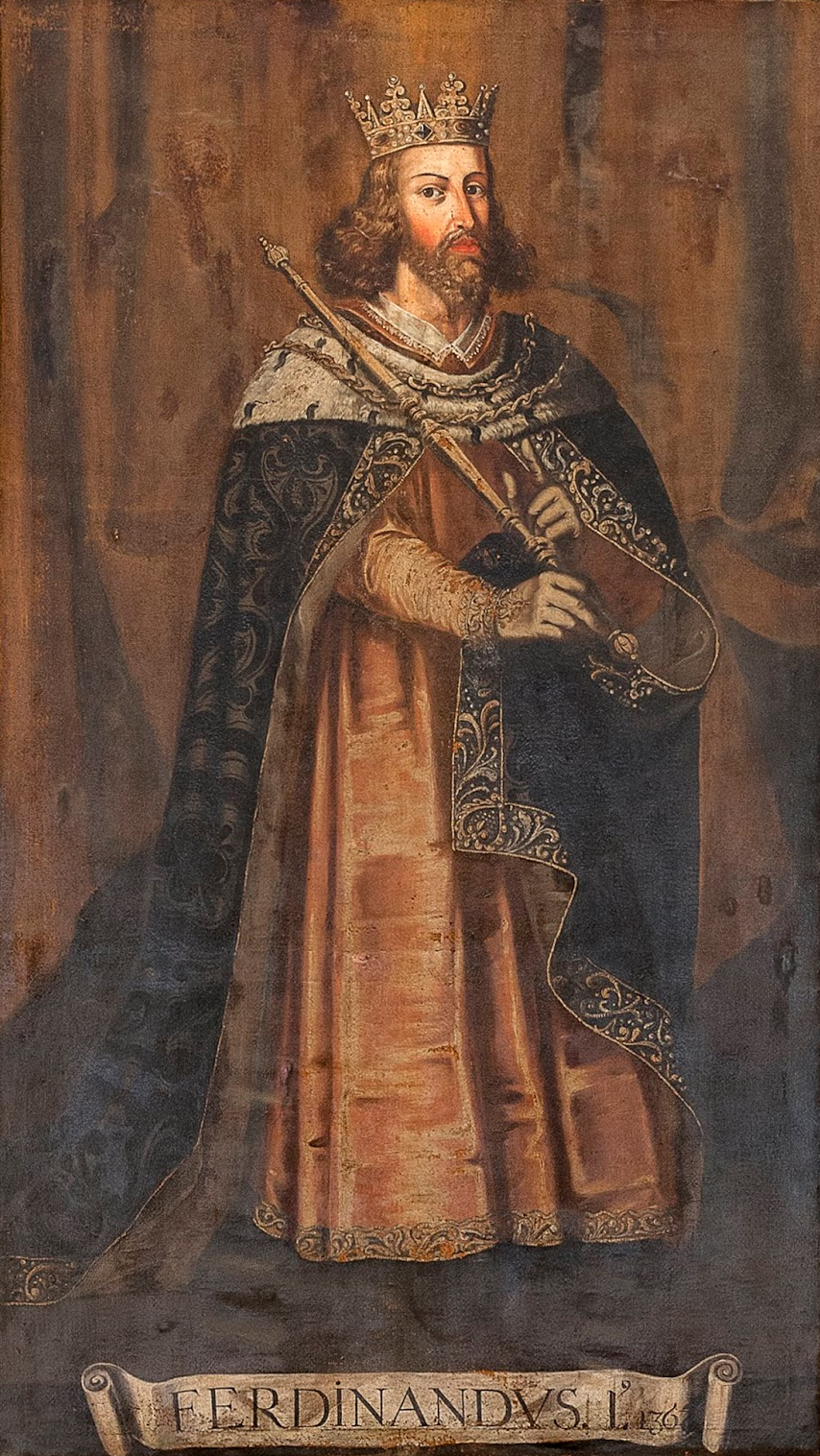 Portrait series by Carl Falch, c. 1655, in the University of Coimbra